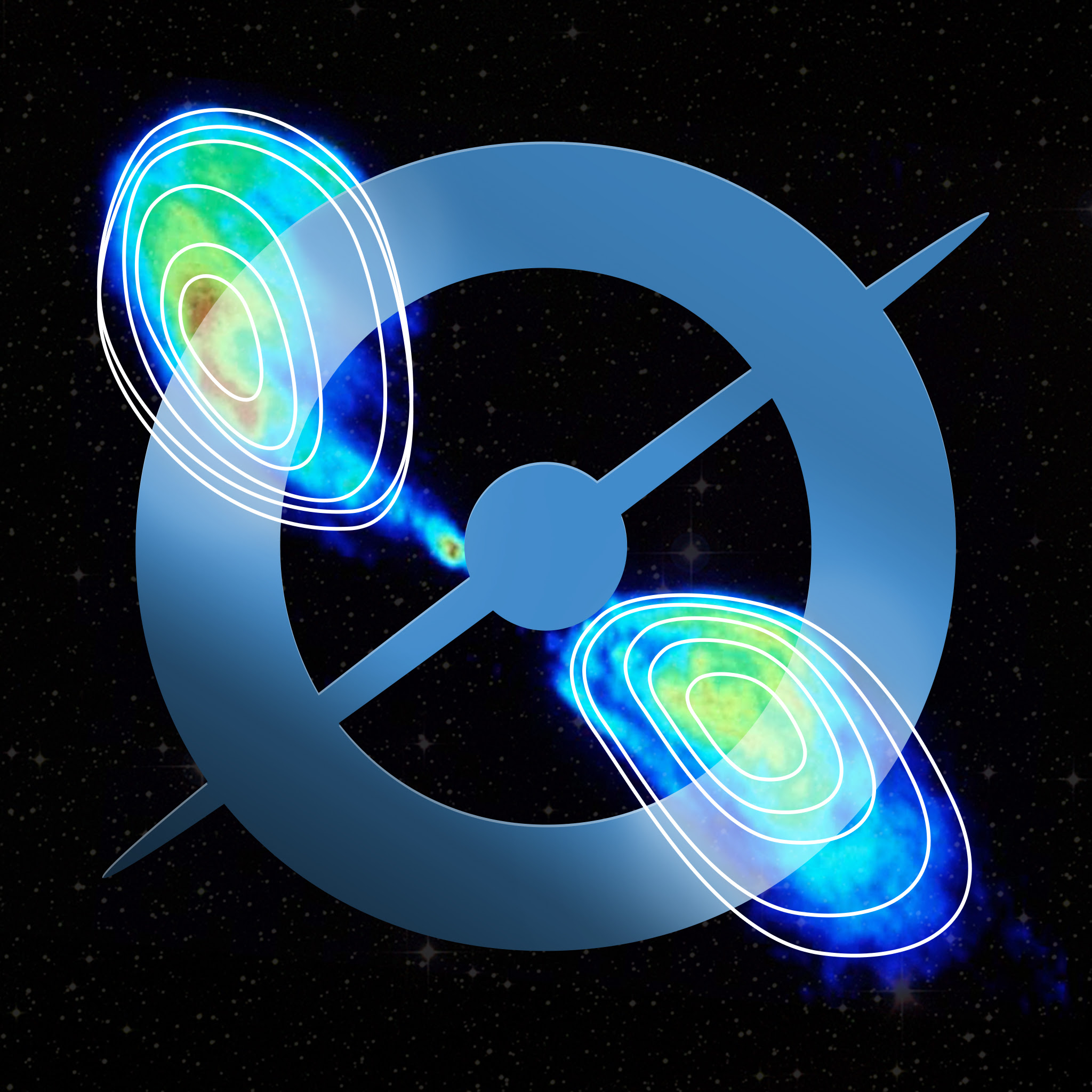 Official Zooniverse avatar for Radio Galaxy Zoo